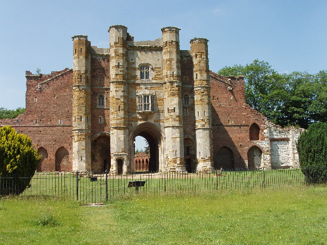 Gatehouse of Thornton Abbey, Lincolnshire.